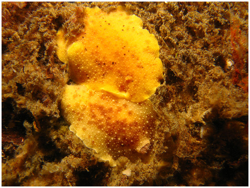 Geitodoris heathi at cove 2 in west Seattle